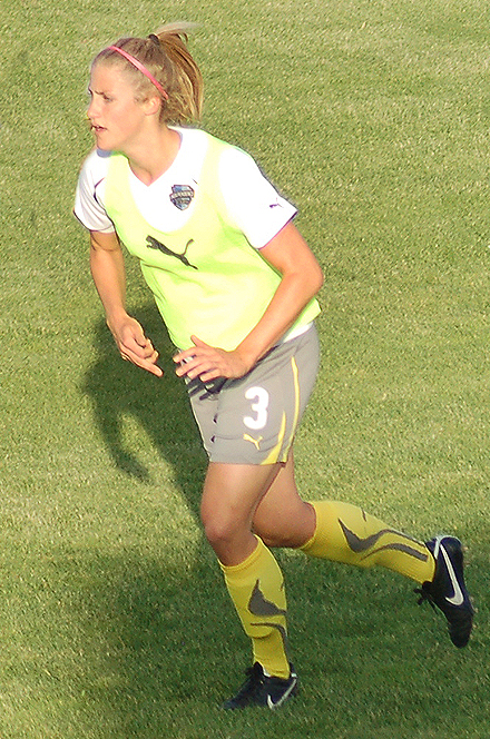 Allison Falk of the Philadelphia Independence.